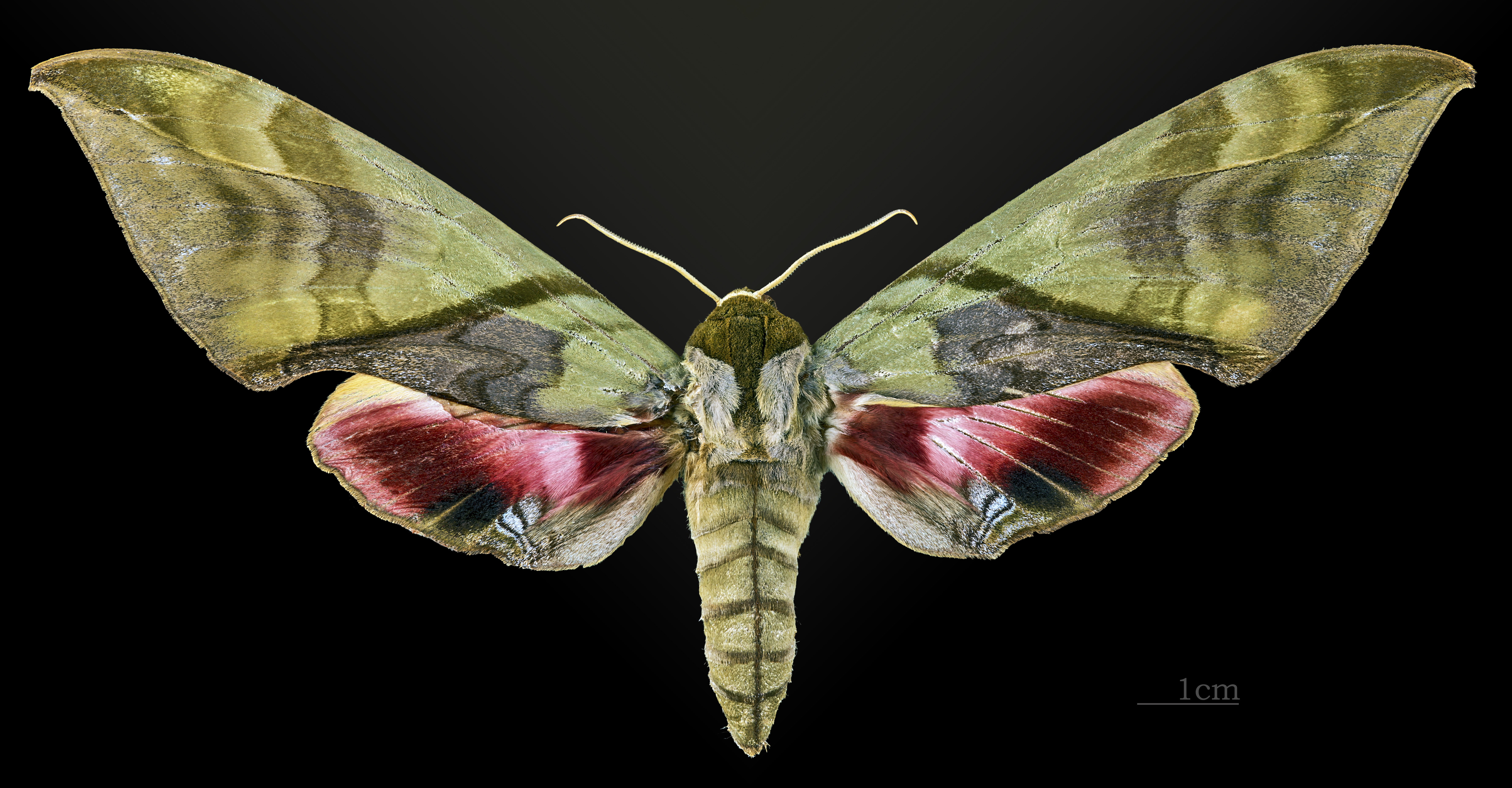 Callambulyx amanda - Dorsal side Collection of the Mathematician Laurent Schwartz